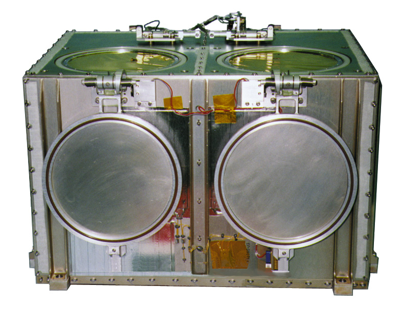 Instrument of the scientific satellite Advanced Composition Explorer. The Solar Isotope Spectrometer (SIS) is designed to provide high resolution measurements of the isotopic composition of energetic nuclei from He to Ni (Z=2 to 28) over the energy range from ~10 to ~100 MeV/nucleon.